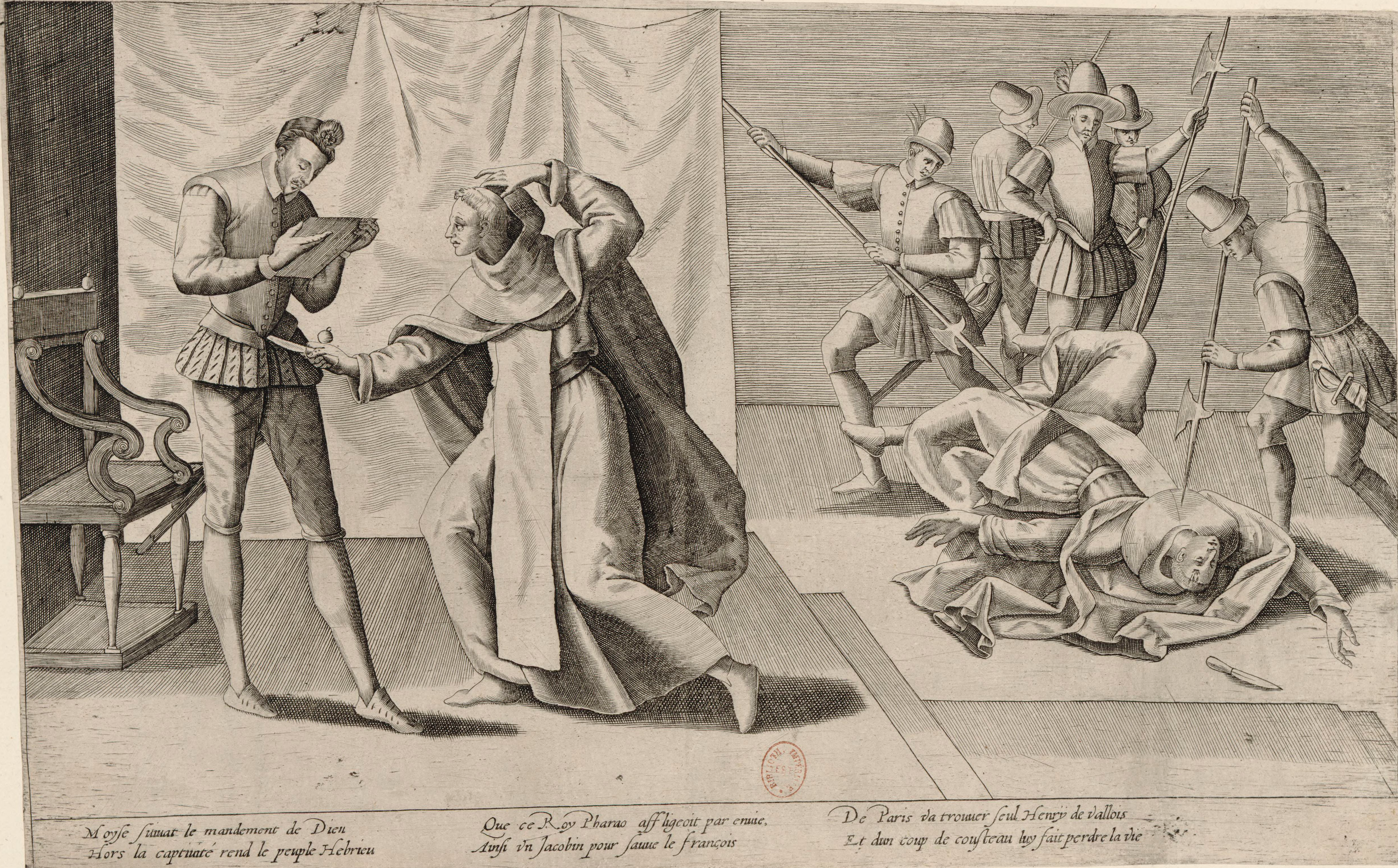 Jacques Clément assassinates Henry III of France (1589).